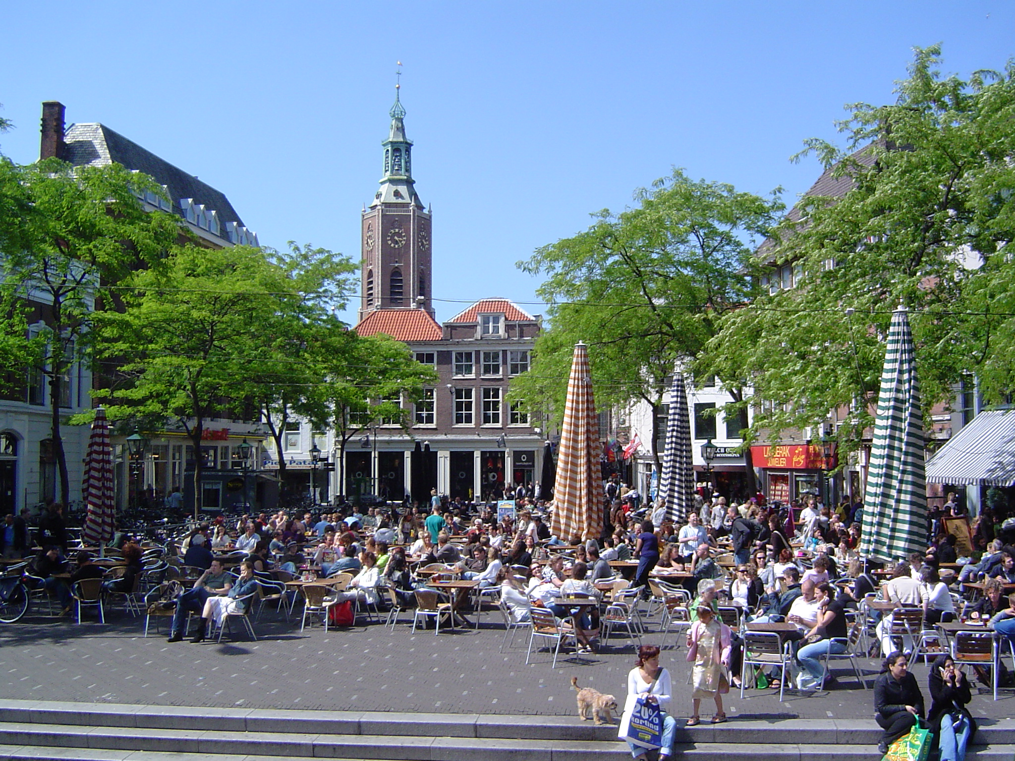 Grote Markt, The Hague, Holland